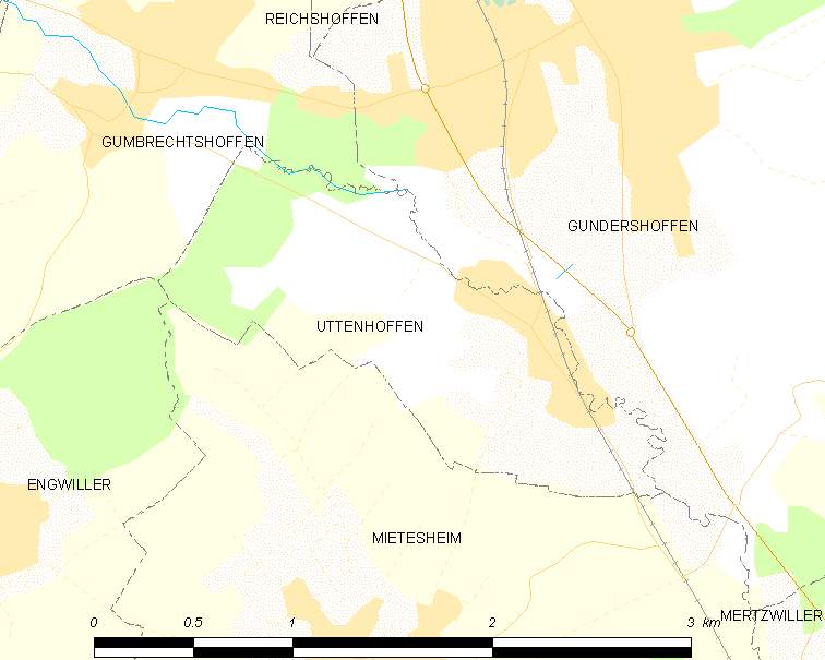 Map of French municipality